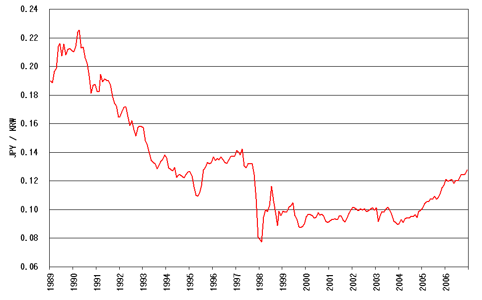 Graph showing Japanese yen and South Korean won exchange rate from January, 1989 to December, 2006.